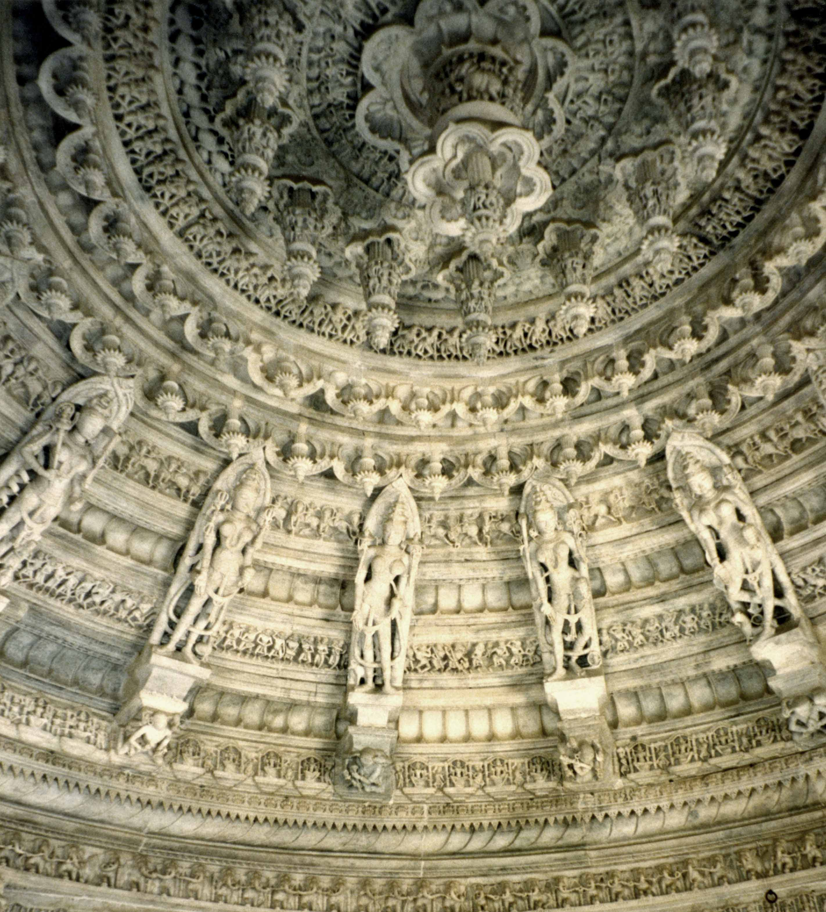 Domed ceiling: Jain temple: Dilwara, Mount Abu, Rajasthan, India